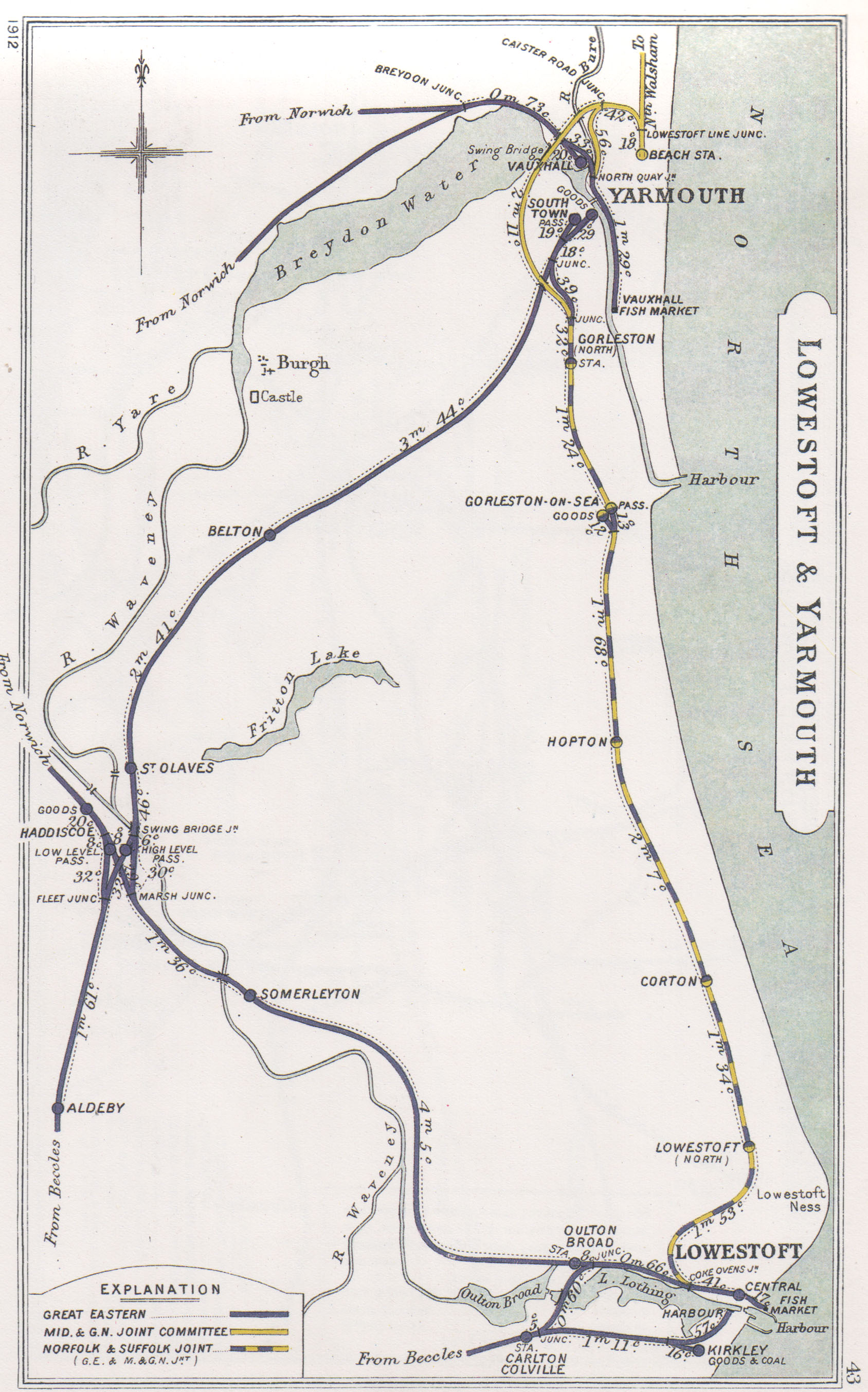 Railway Junctions in Lowestoft & Yarmouth pre grouping